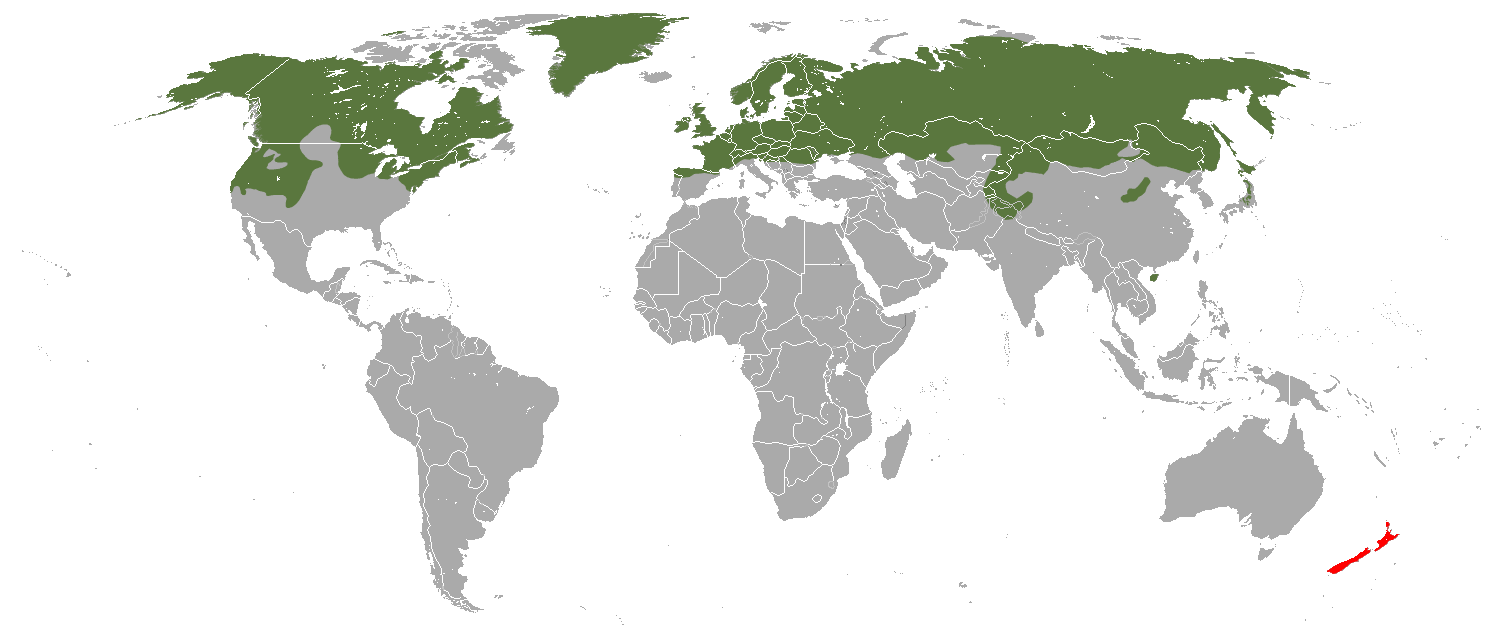 Stoat (Mustela erminea) range (green – native, red – introduced)